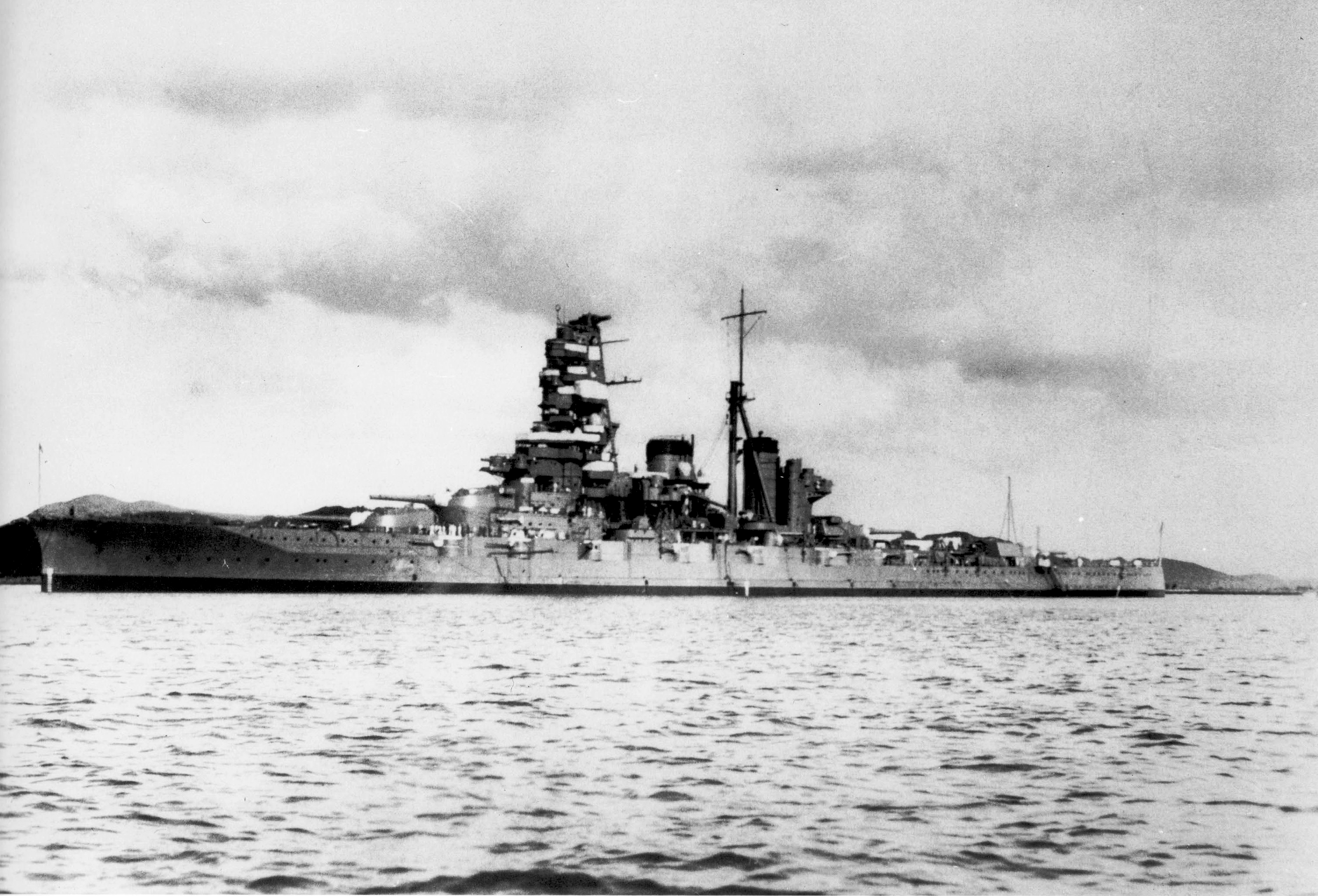 Imperial Japanese Navy battleship Haruna off Yokosuka, Japan in 1935.